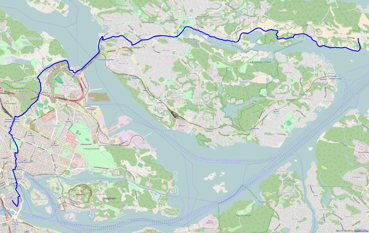 The Norra Lidingöstråket hiking trail in Stockholm, Sweden.